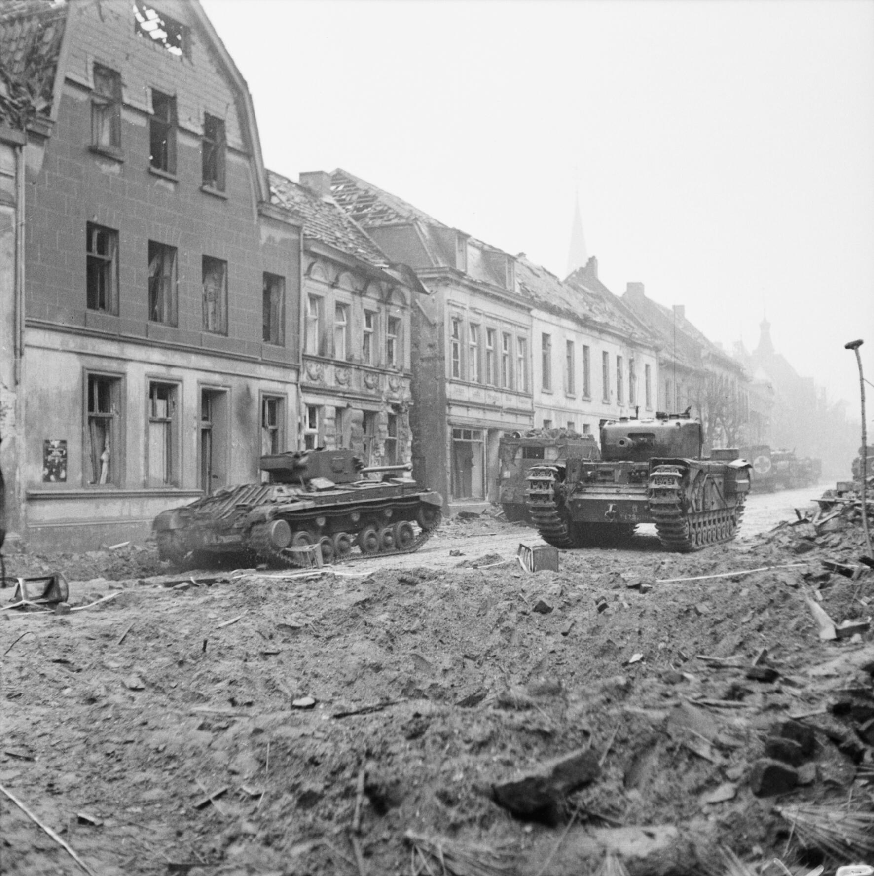 The British Army in North-west Europe 1944-45 A Churchill tank and a Valentine Mk XI Royal Artillery OP tank (left) in Goch, 21 February 1945.